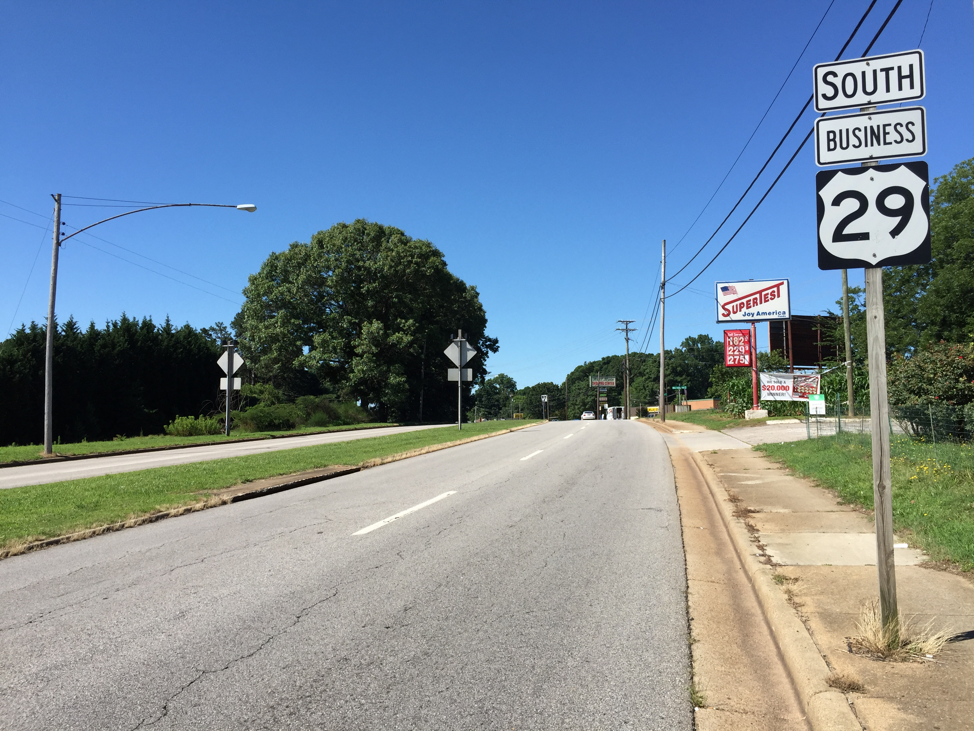 View south along U.S. Route 29 Business (Main Street) at Old Greensboro Road in Danville, Virginia